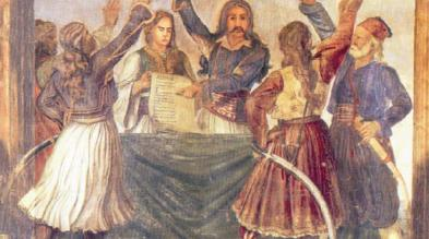 Delegates of the greek nation voting in the 1st National Assembly (Epidavros, 1821). Fresco in the Greek Parliament